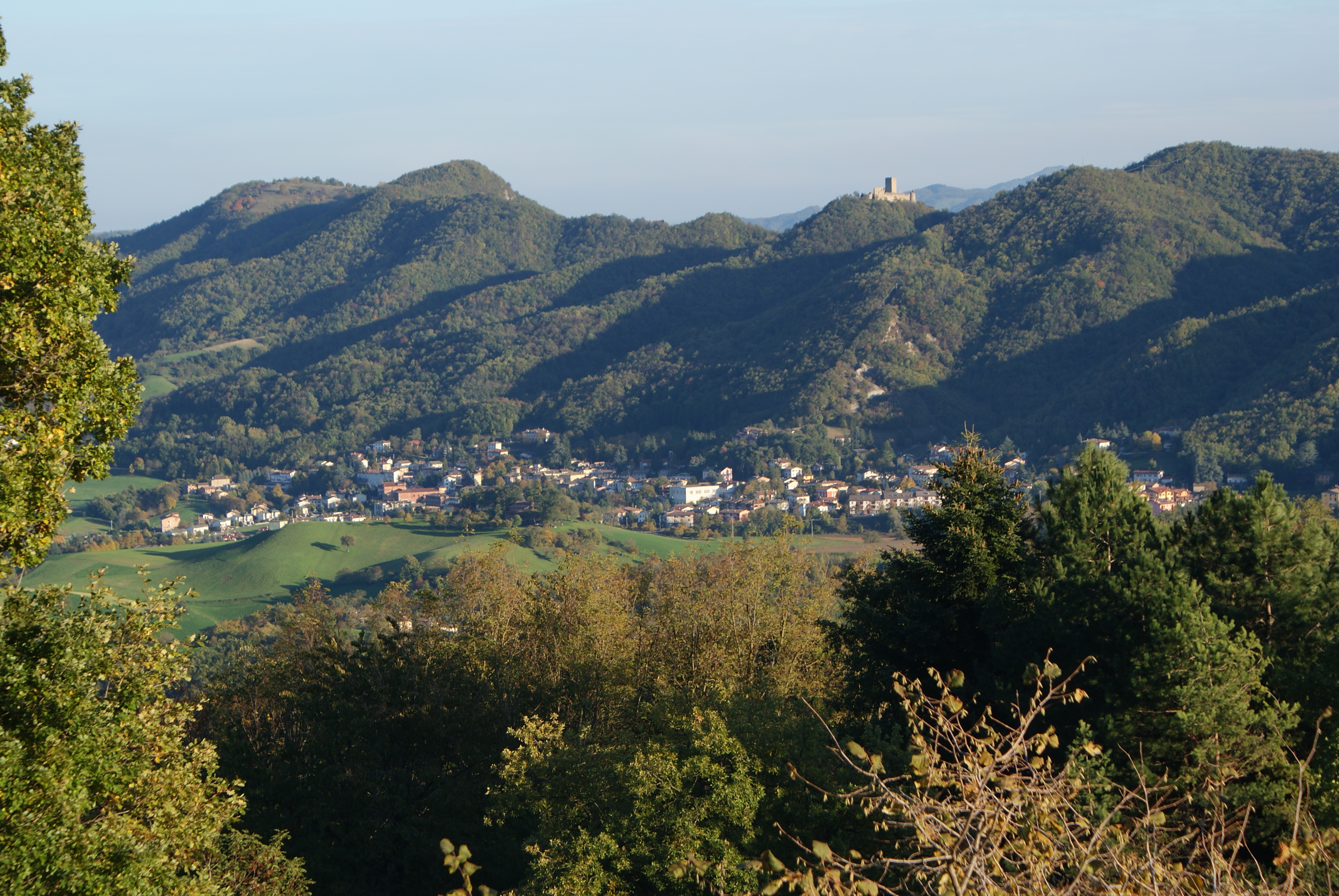 Carpineti, Province of Reggio Emilia, Appennino reggiano, Italy On the top of the hill is the middle - ages castle of Carpineti